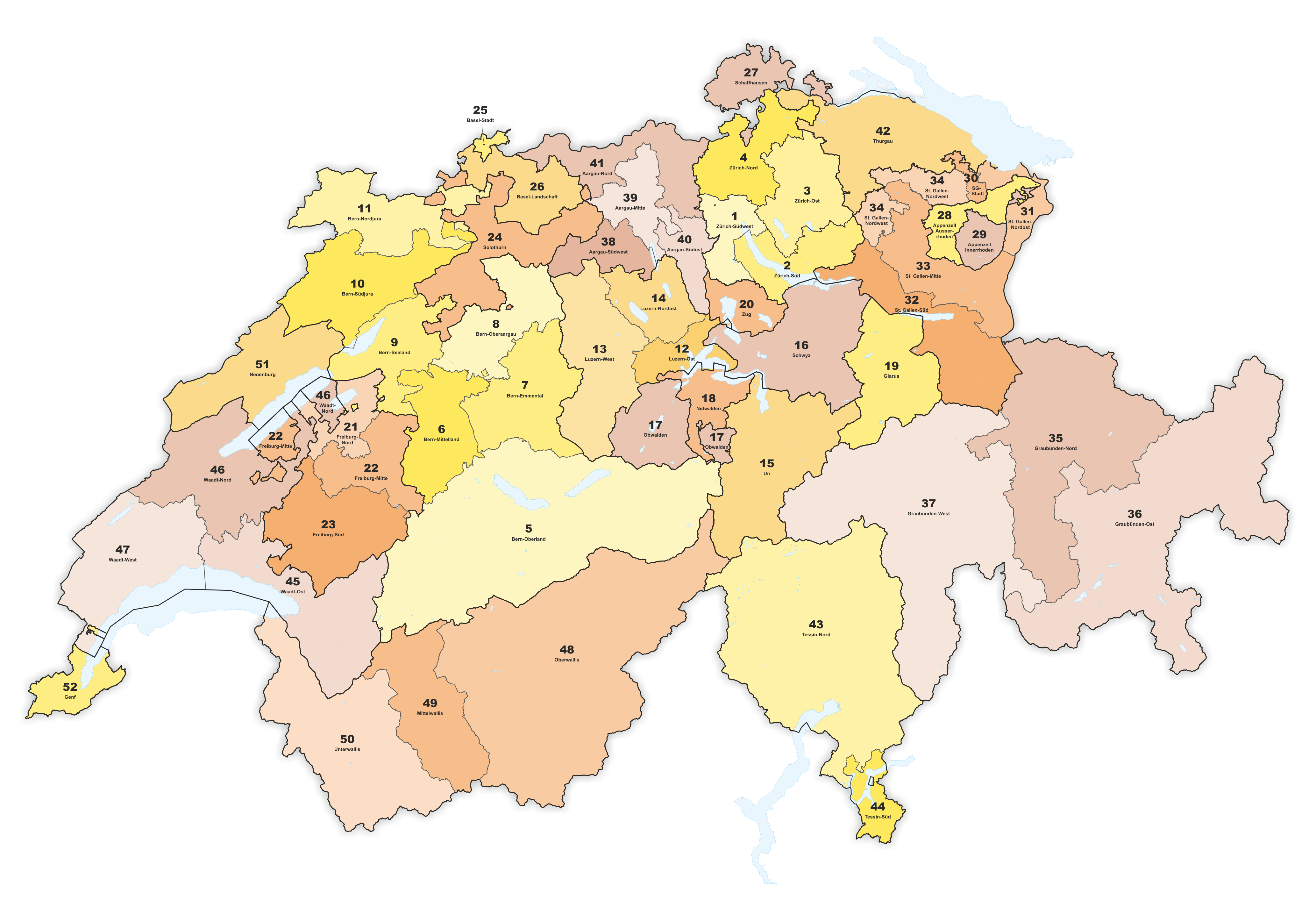 Swiss national council constituencies from 1890 to 1899